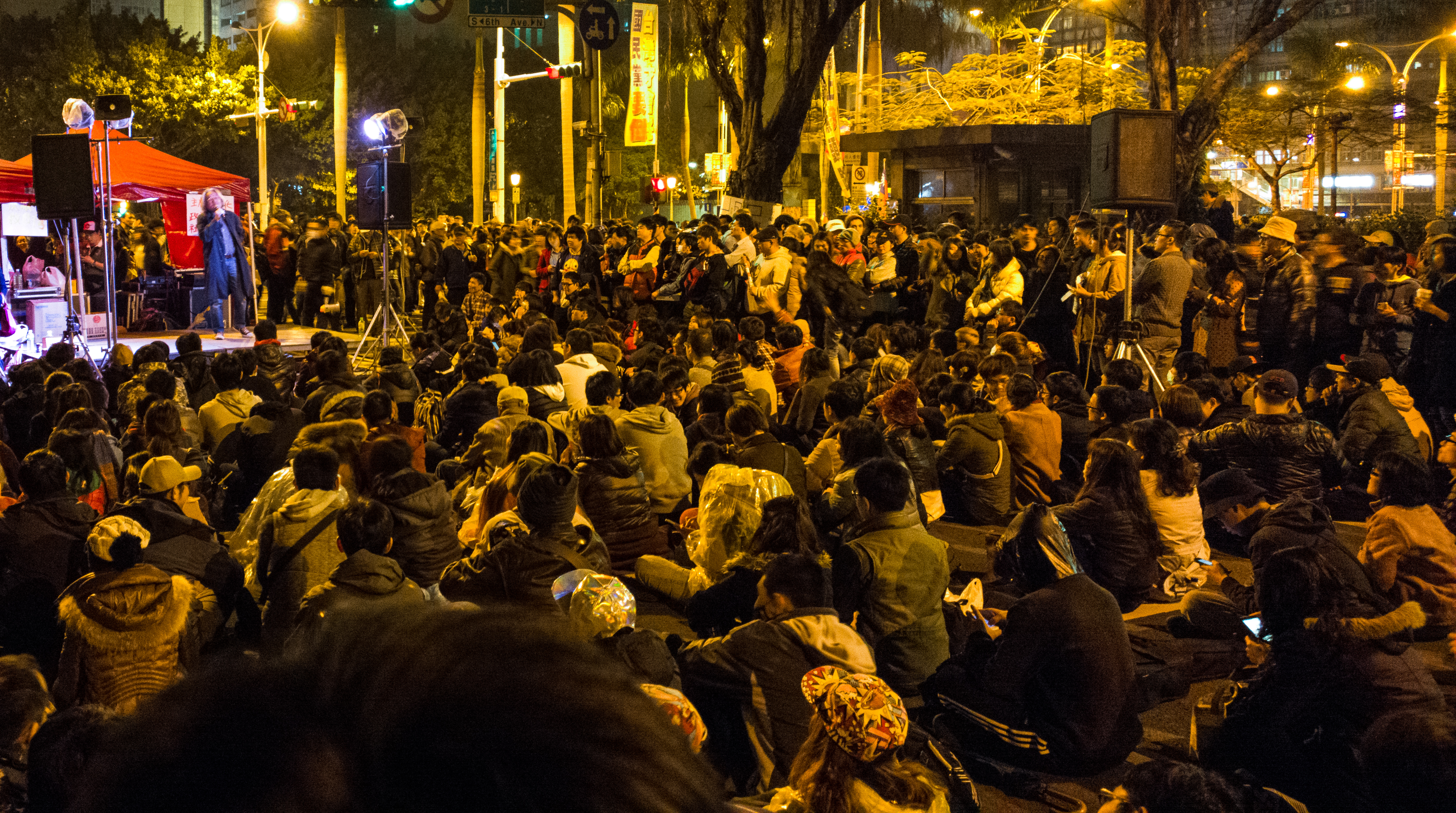 馮光遠在佔領立法院現場